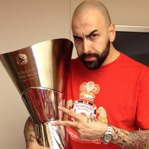 Picture of basketball player Pero Antic